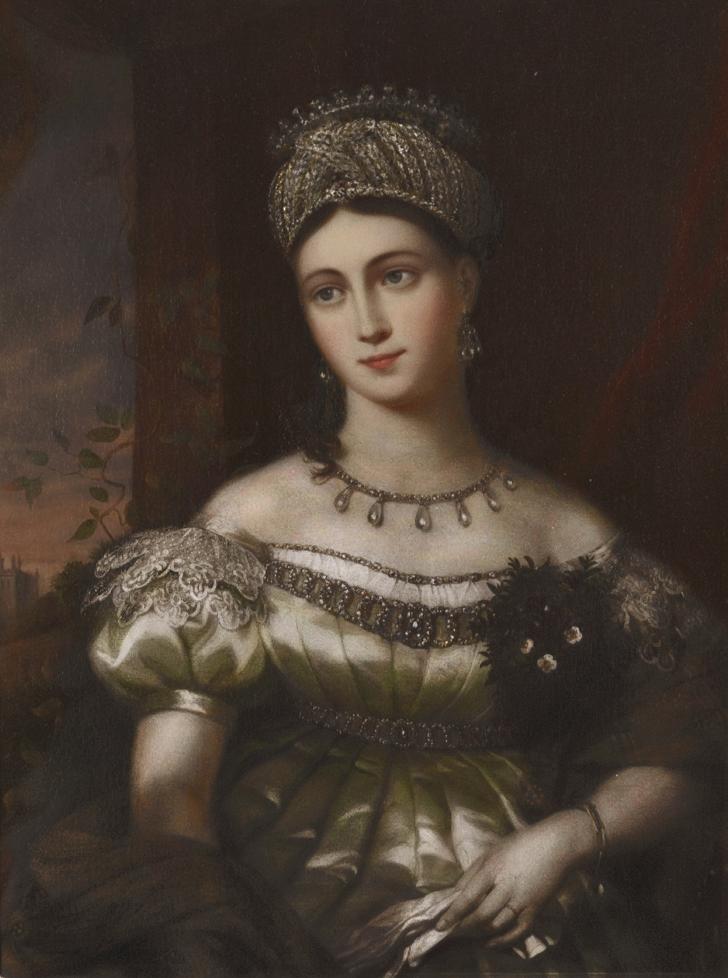 Princess Louise of Saxe-Gotha-Altenburg (1800–1831)